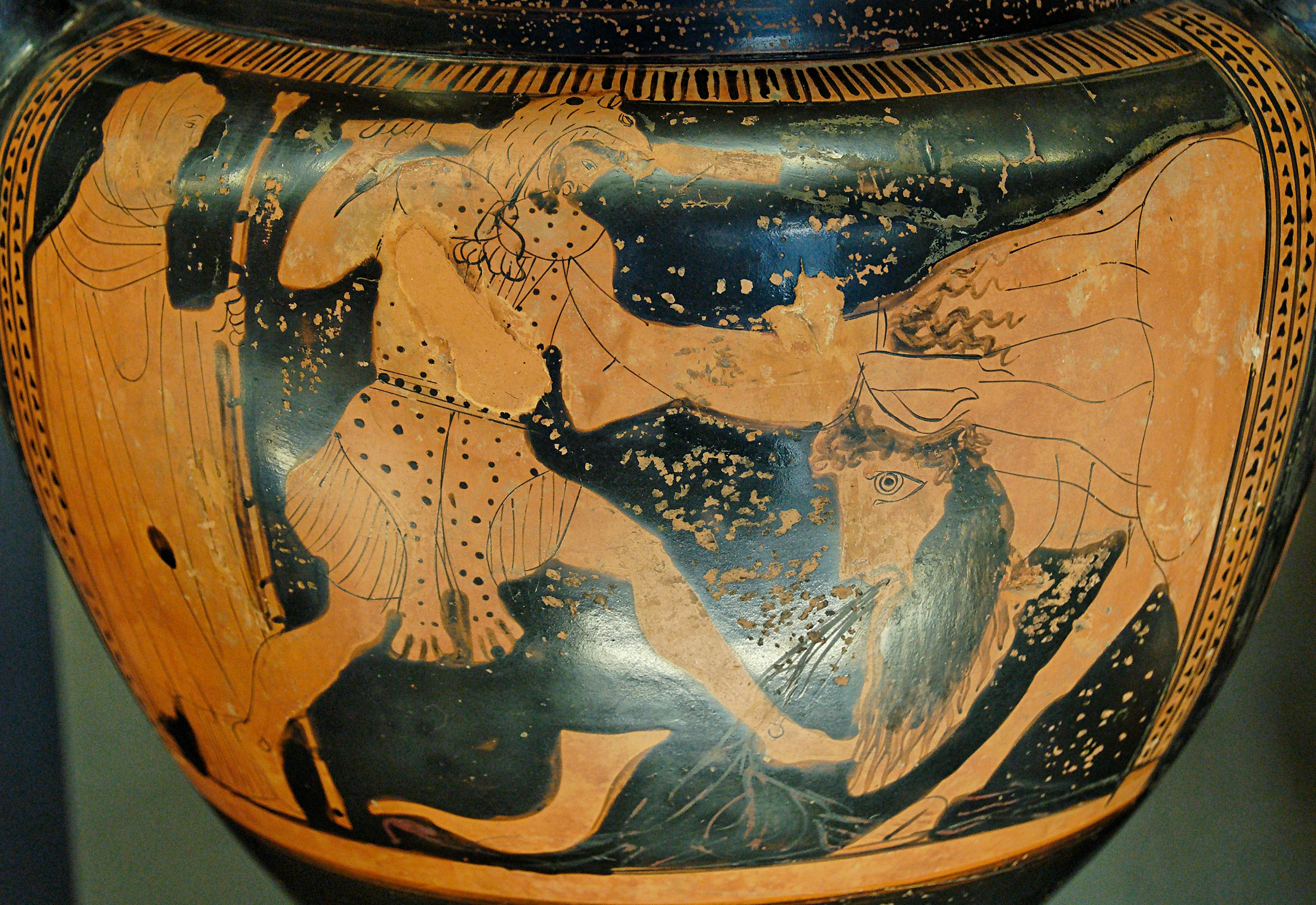 Herakles fighting the river-god Achelous for Deianeira. Side A from an Attic red-figure column-krater, ca. 450 BC. From Agrigento.